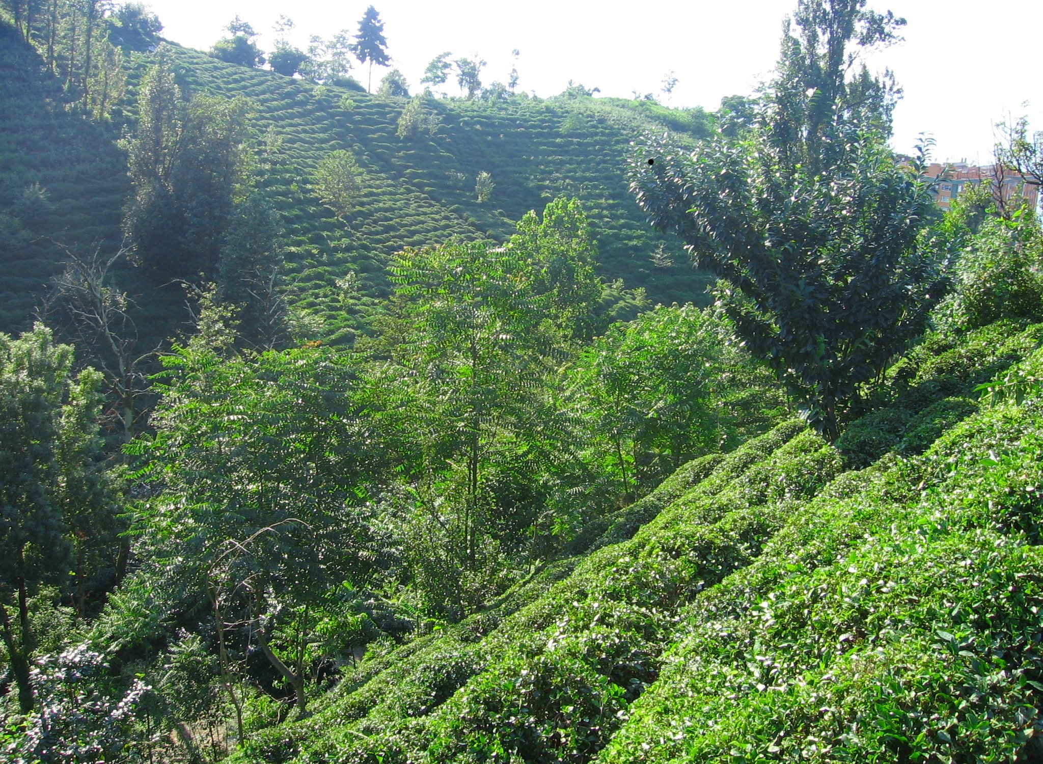 Tea (çay) gardens near Rize, Rize province, Turkey